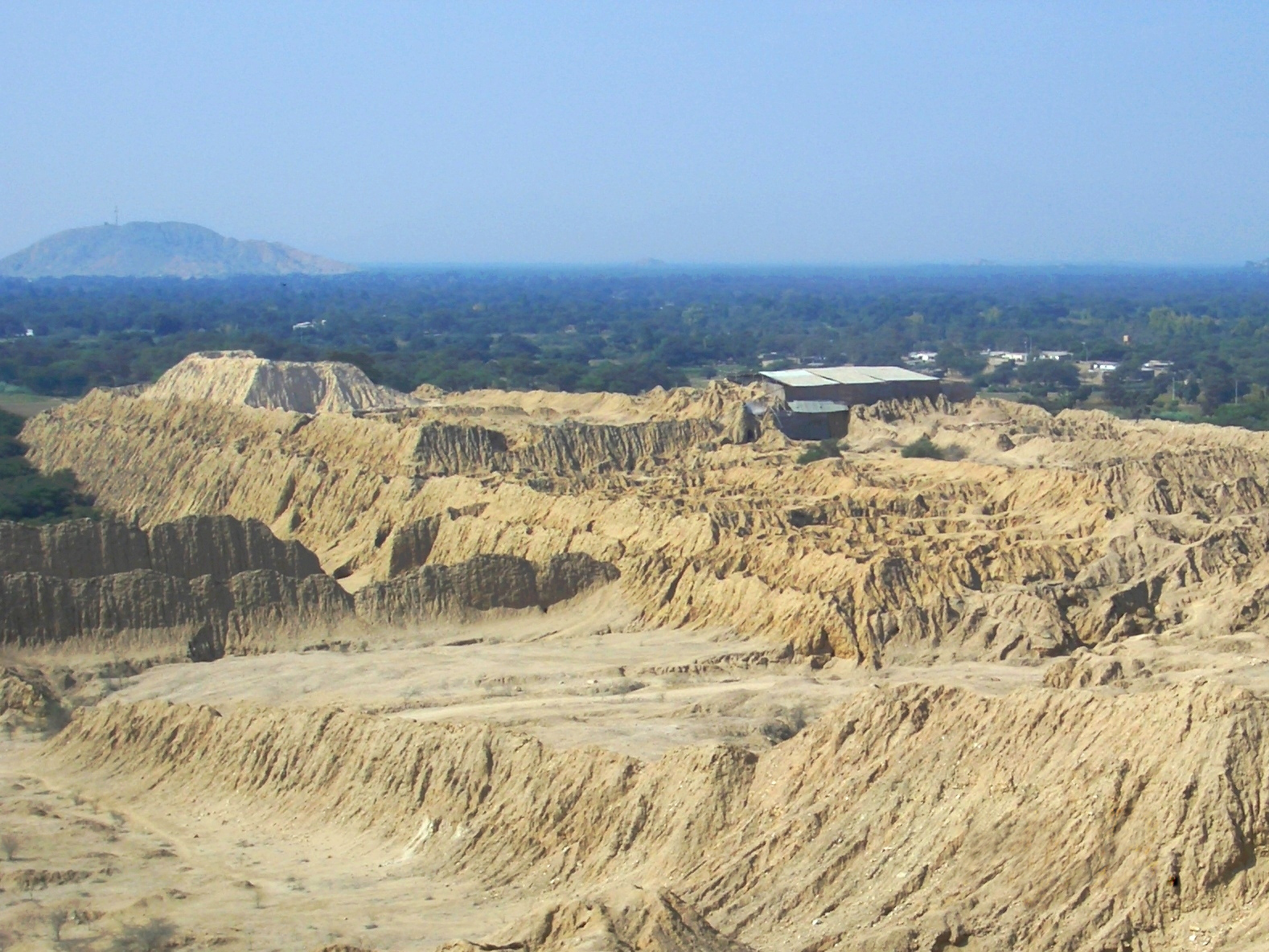 Huaca with platform of the former uptown surmounted by the temple hill